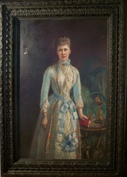 Das Ölbild zeigt die Altenburger Prinzessin Auguste von Sachsen - Meinignen, geb Prinz. von Sachsen - Meinigen (1843 - 1919). Mutter des letzten Altenburger Herzogs Ernst II. und Gattin von Prinz Moritz von Sachsen - Altenburg. Tochter von Herzogin Marie (V 4699). Die Dargestellte steht im blau/weißen Kleid, mit einem Buch in ihrer linken Hand, neben einen kleinen Tisch.